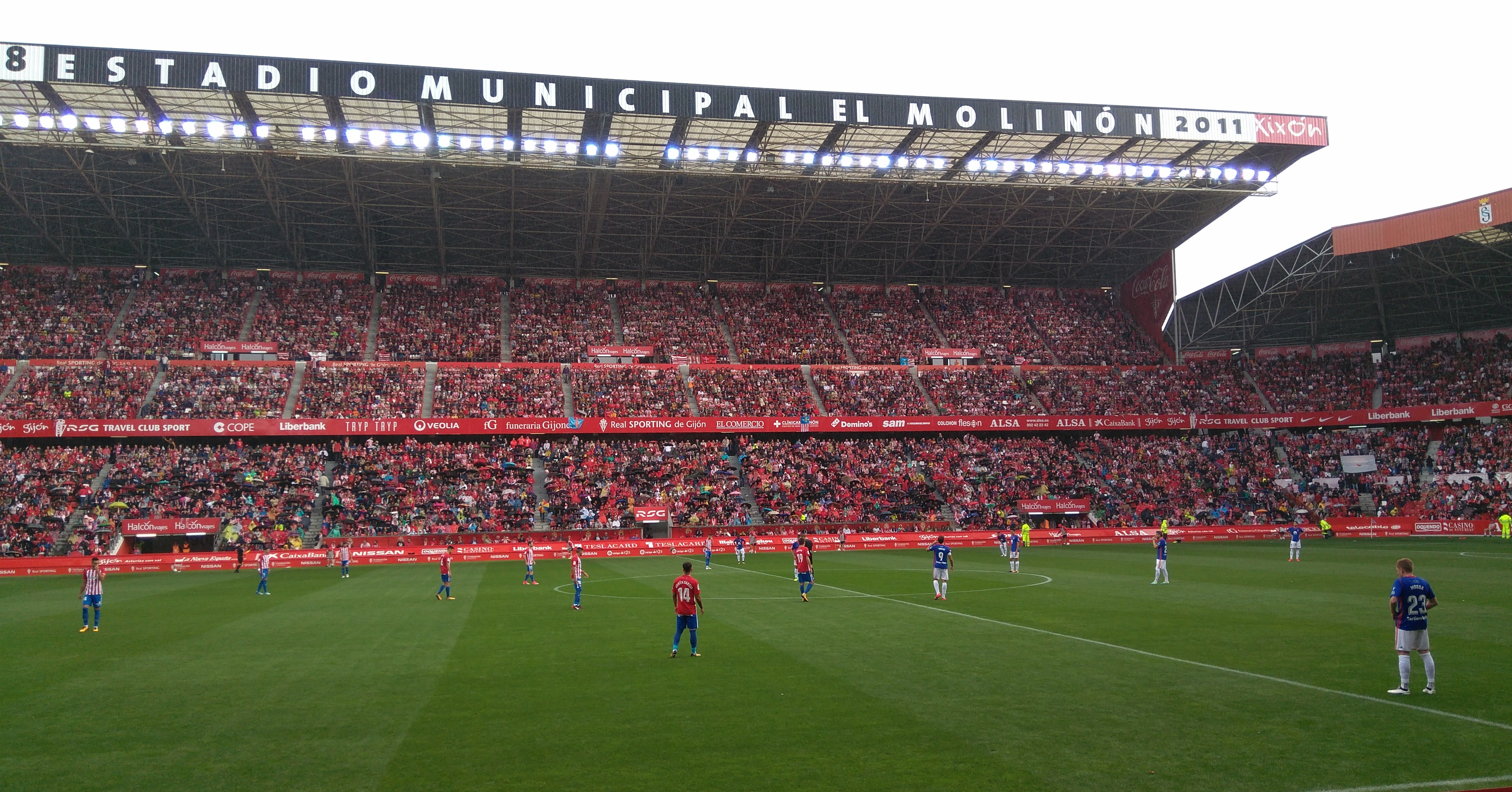 Kick off of the Asturian derby, played between the Spanish football teams Real Sporting and Real Oviedo.